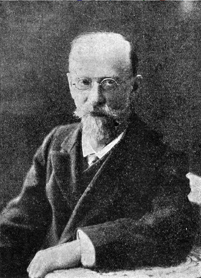 Nikolay Kholodkovsky